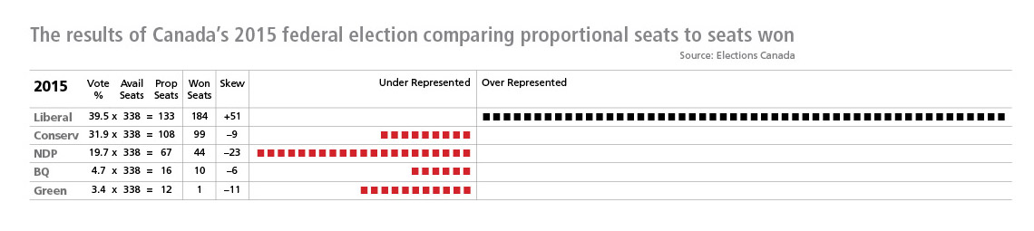 Election results showing the difference between seats actually awarded and seats that would have been awarded under a proportional electoral system.